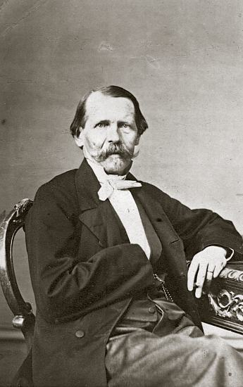 Photographic portrait of Magnus von Wright